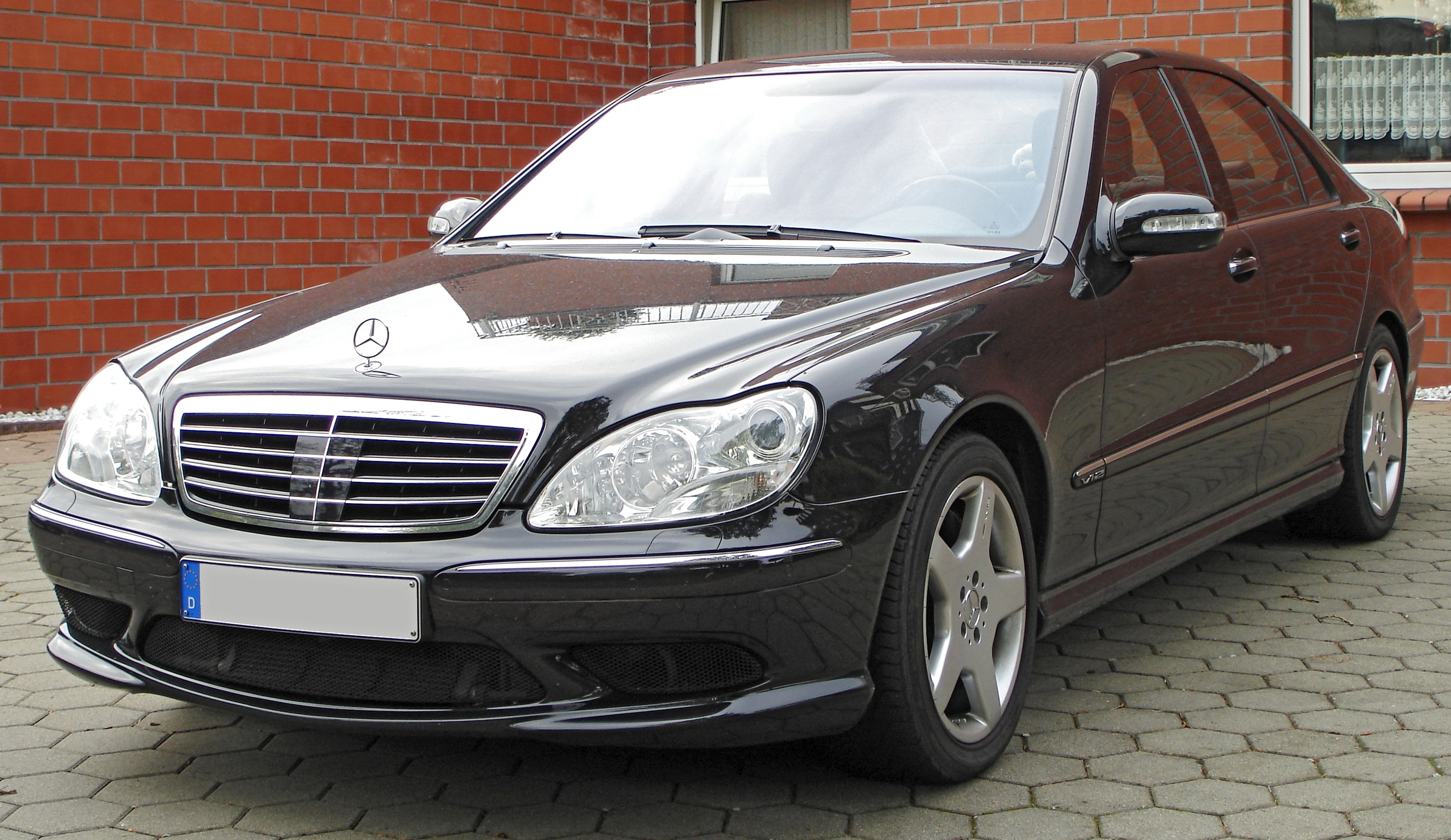 Mercedes S600 V12 W220 front